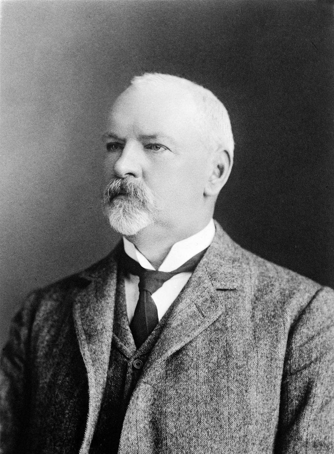 Johnson Symington. Photograph. Iconographic Collections